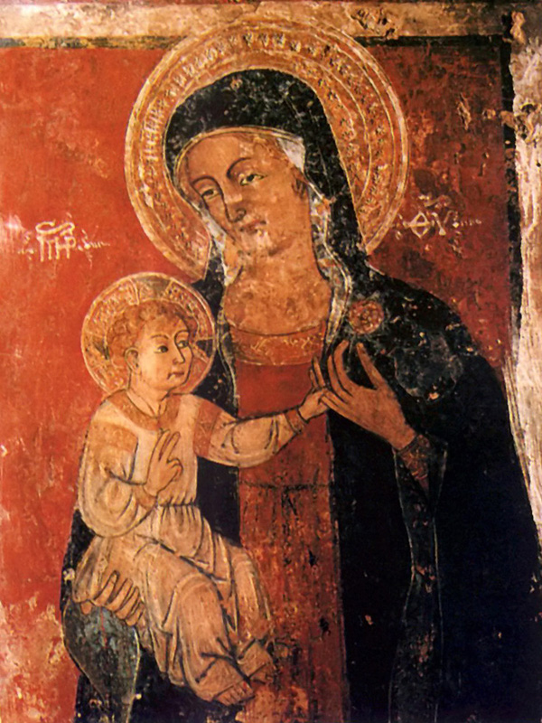 image of madonna in the crypt of favana